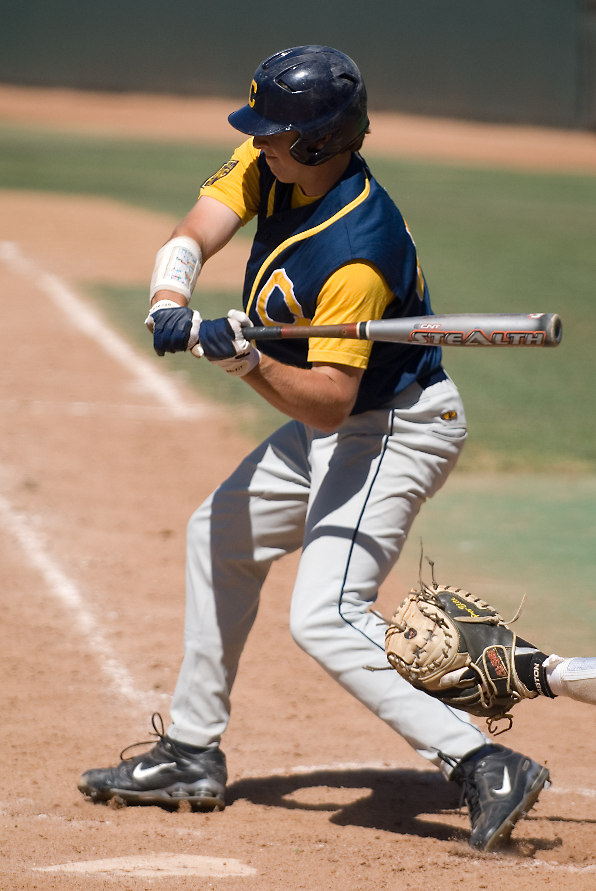 Blake Smith bats for the California Golden Bears during a 2007 game at Jackie Robinson Stadium.